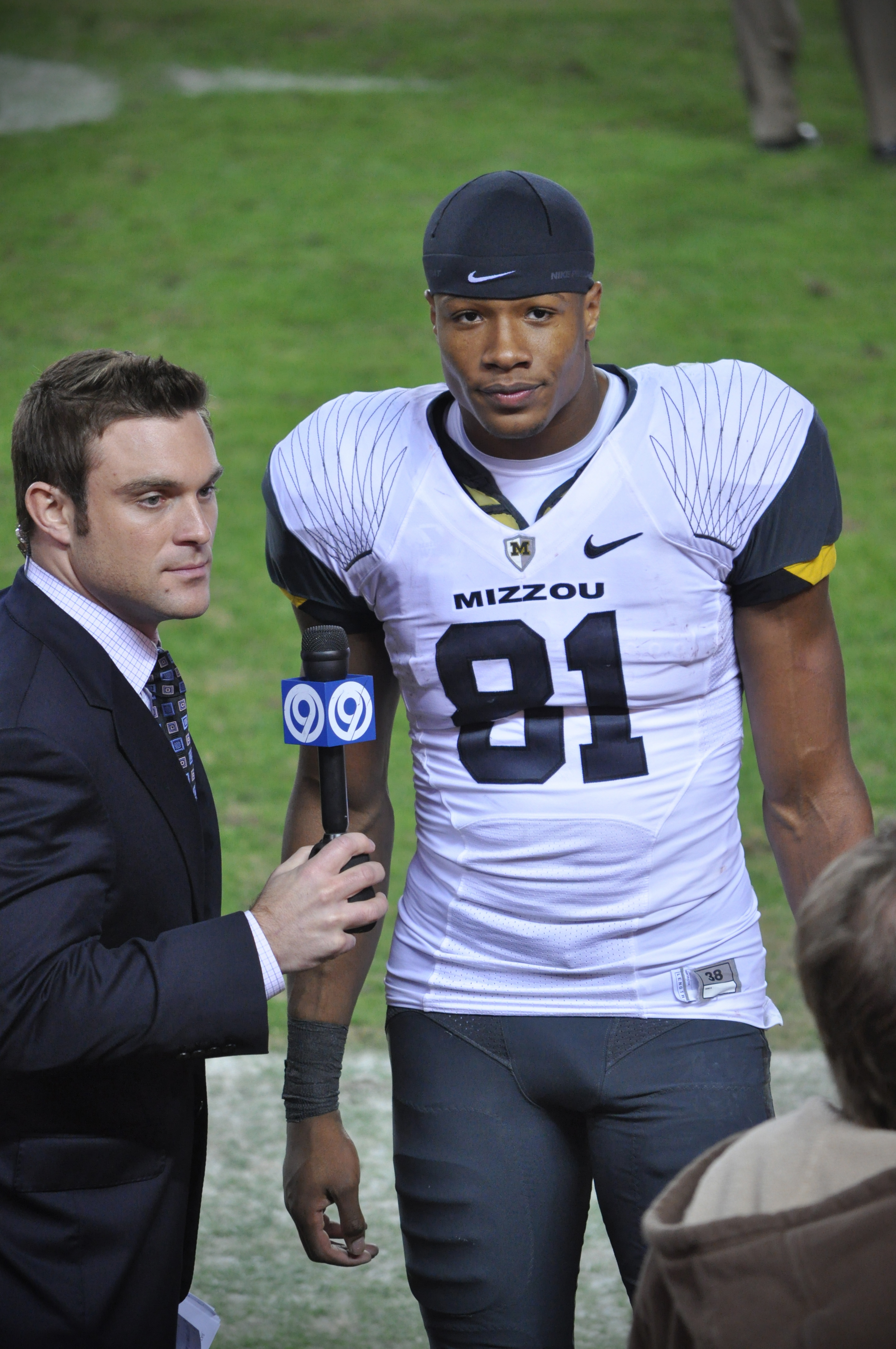 Danario Alexander, wide receiver for Missouri Tigers football team. November 2009.